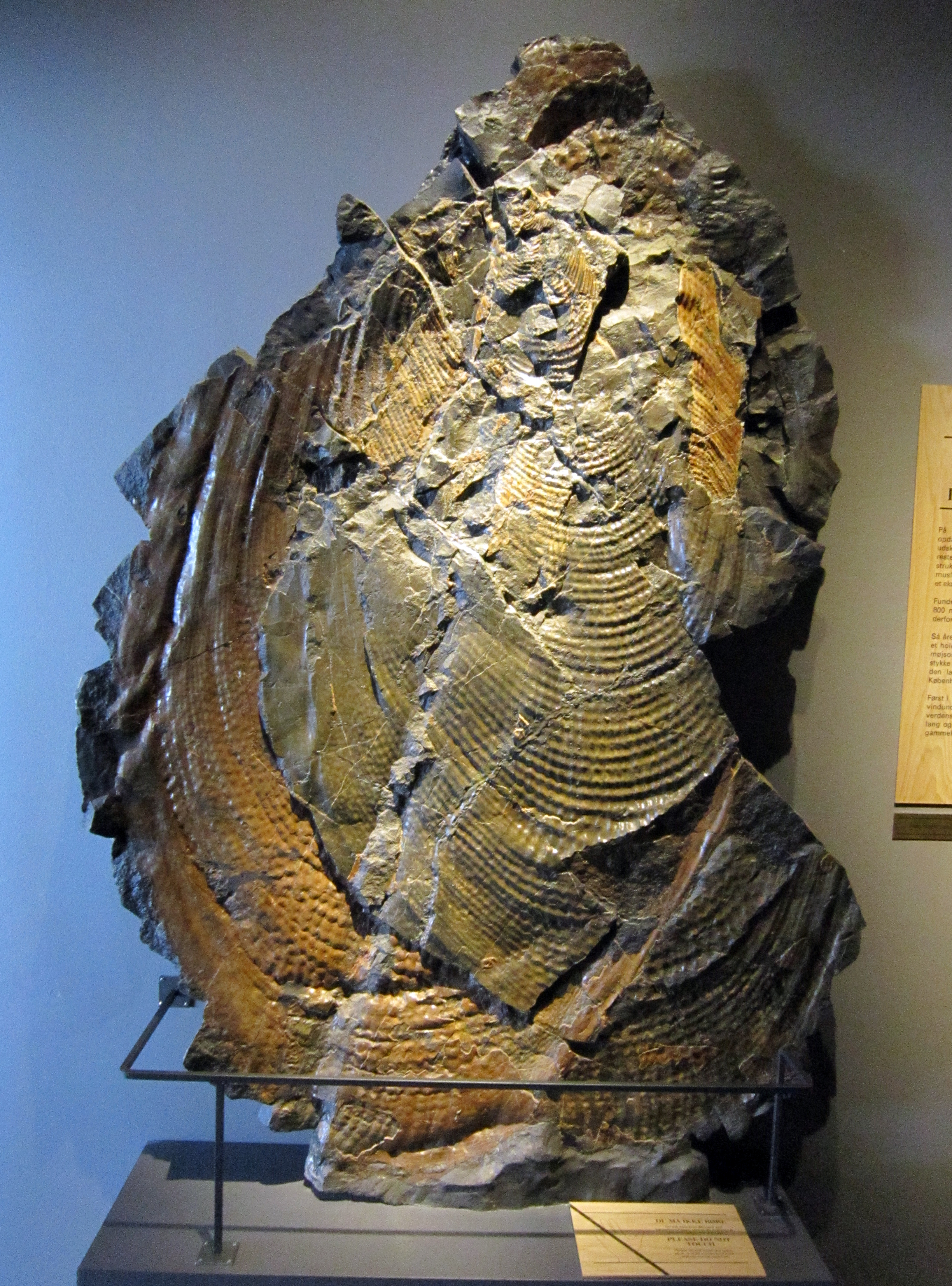 The world's largest clam (187 cms), a Sphenoceramus/Inoceramus steenstrupi fossil from Greenland, Zoological Museum of Copenhagen.